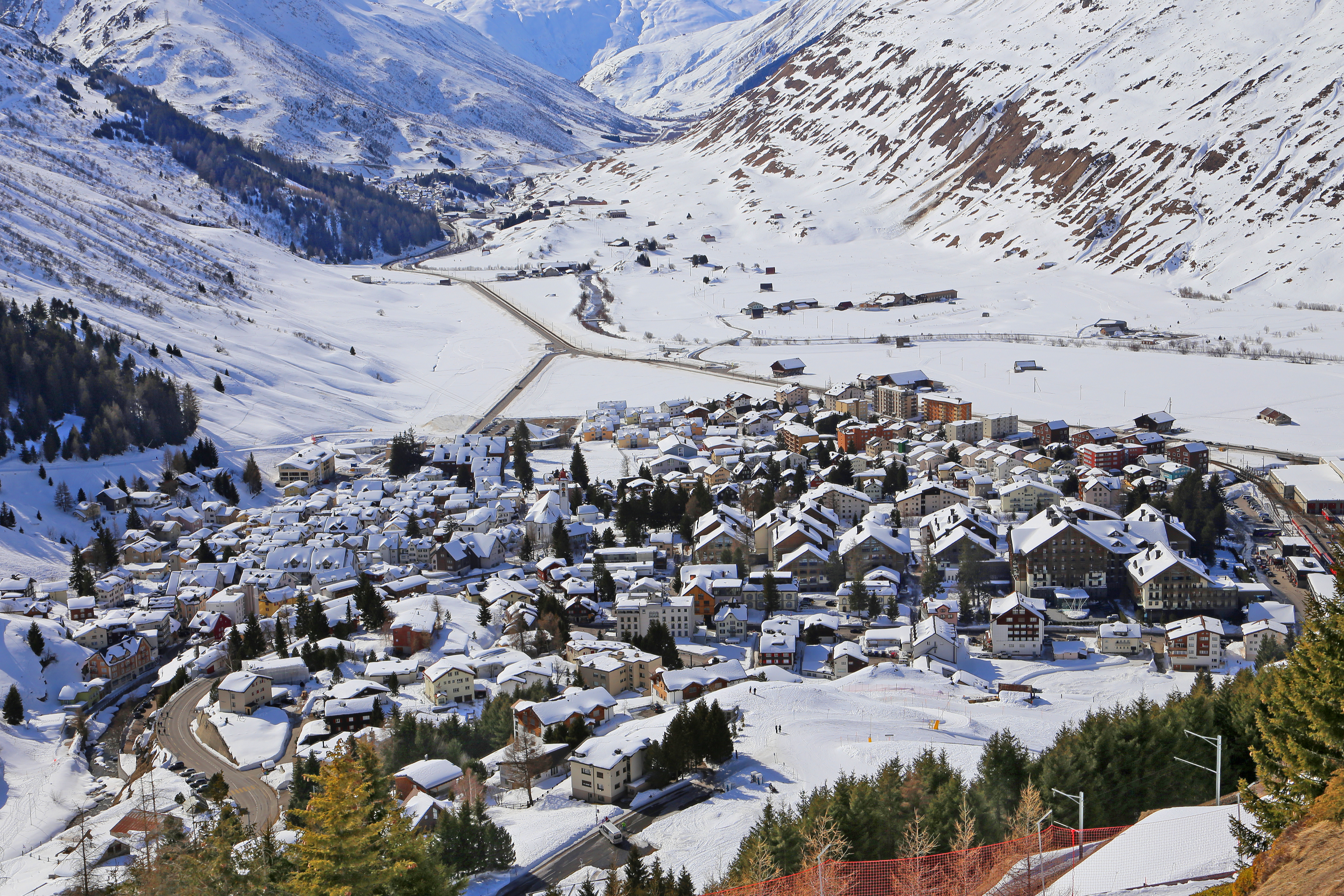 View of Andermatt and the Urserental on the river Reusch in the direction of Realp. Andermatt (about 1,400 inhabitants) is a popular place for skiing (1,500 m above sea level) and a spa town in the canton of Uri, Switzerland.